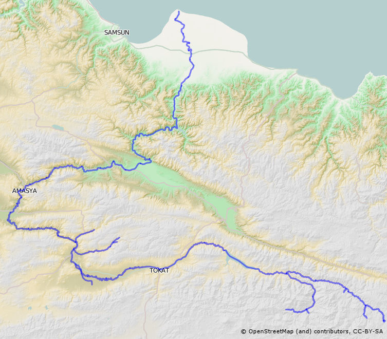 Yeşilırmak basin without two bigger affluents